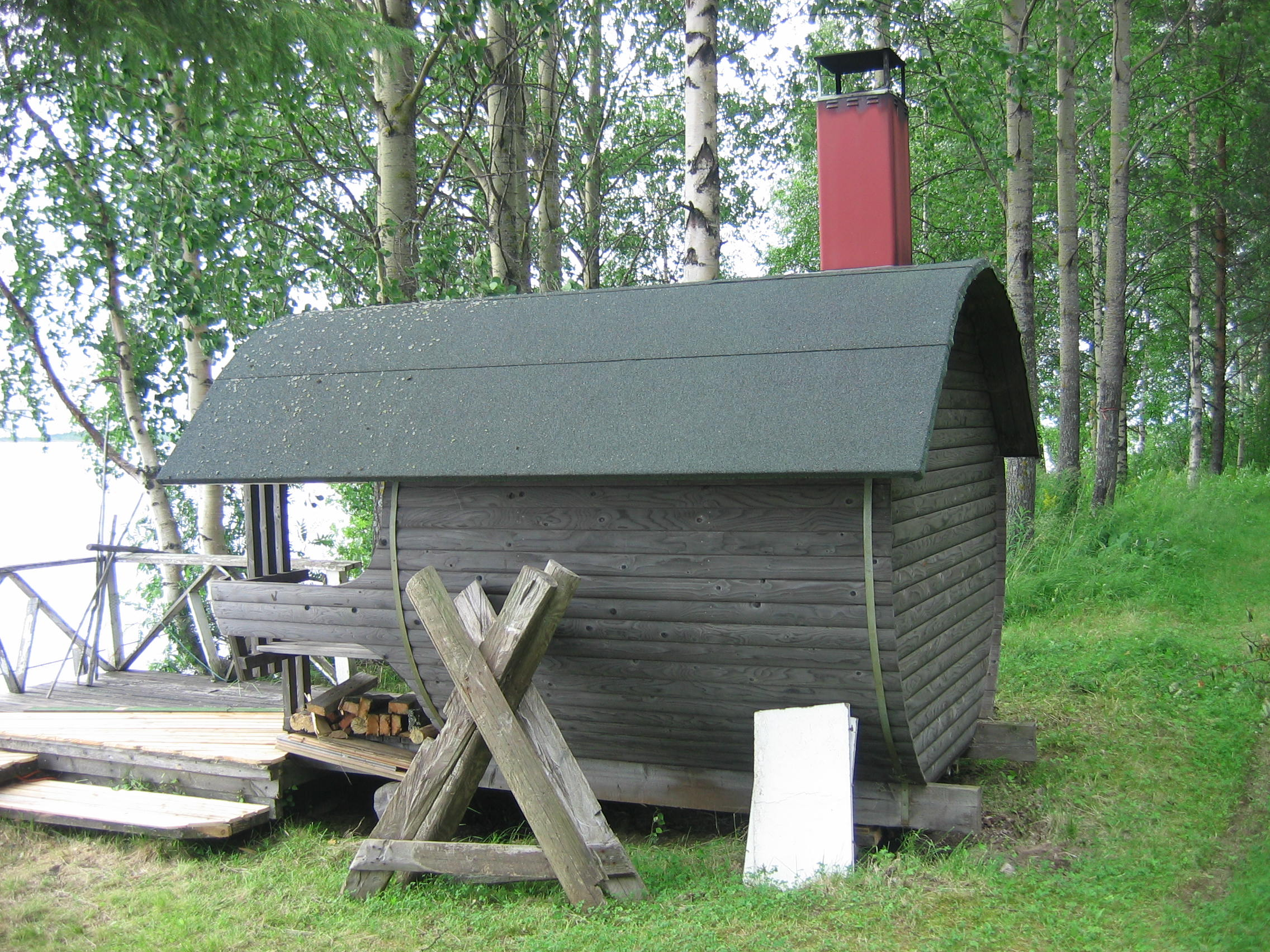 A barrel shaped sauna building at a lake in Finland.